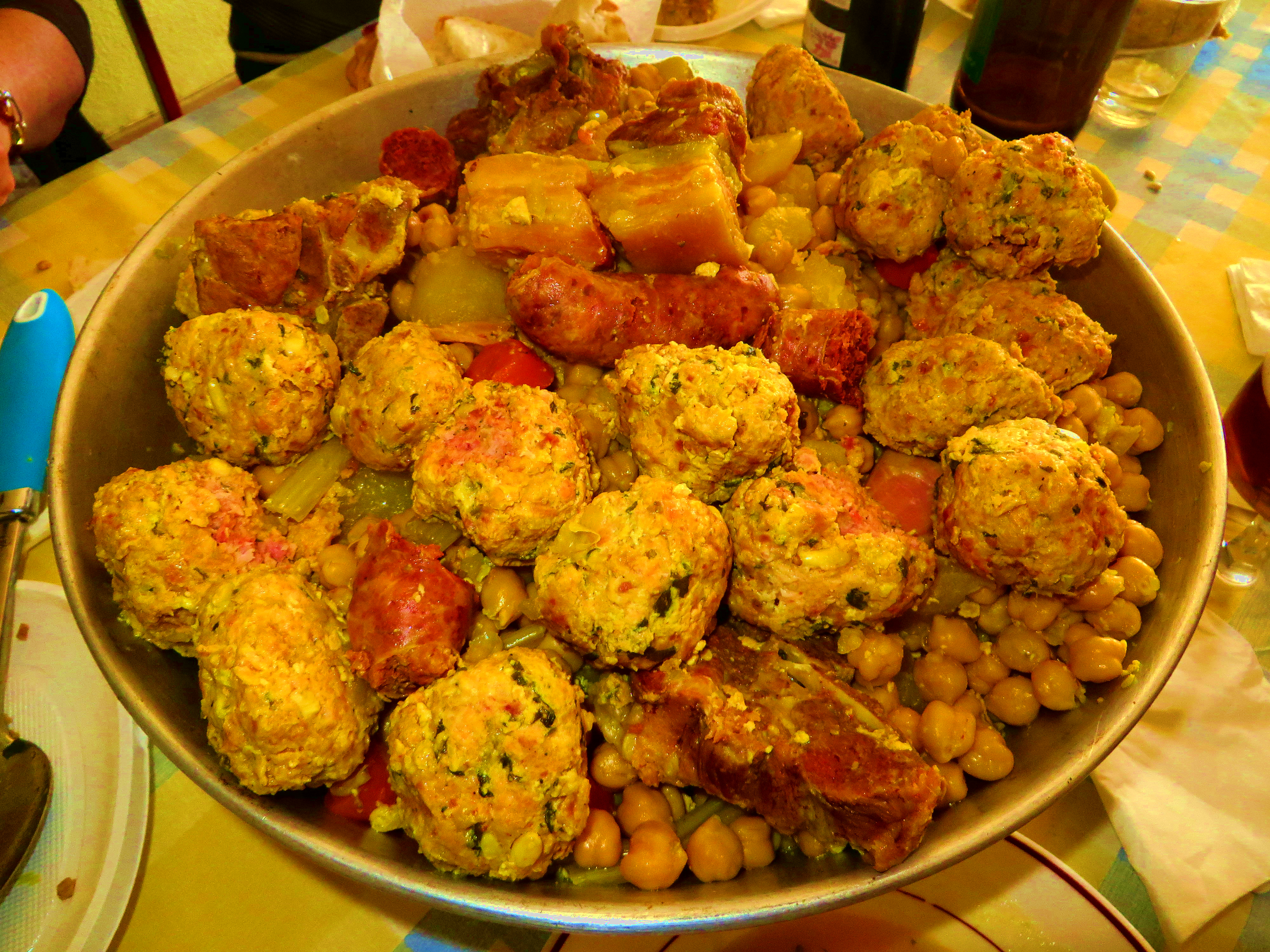 Cocido murciano con pelotas